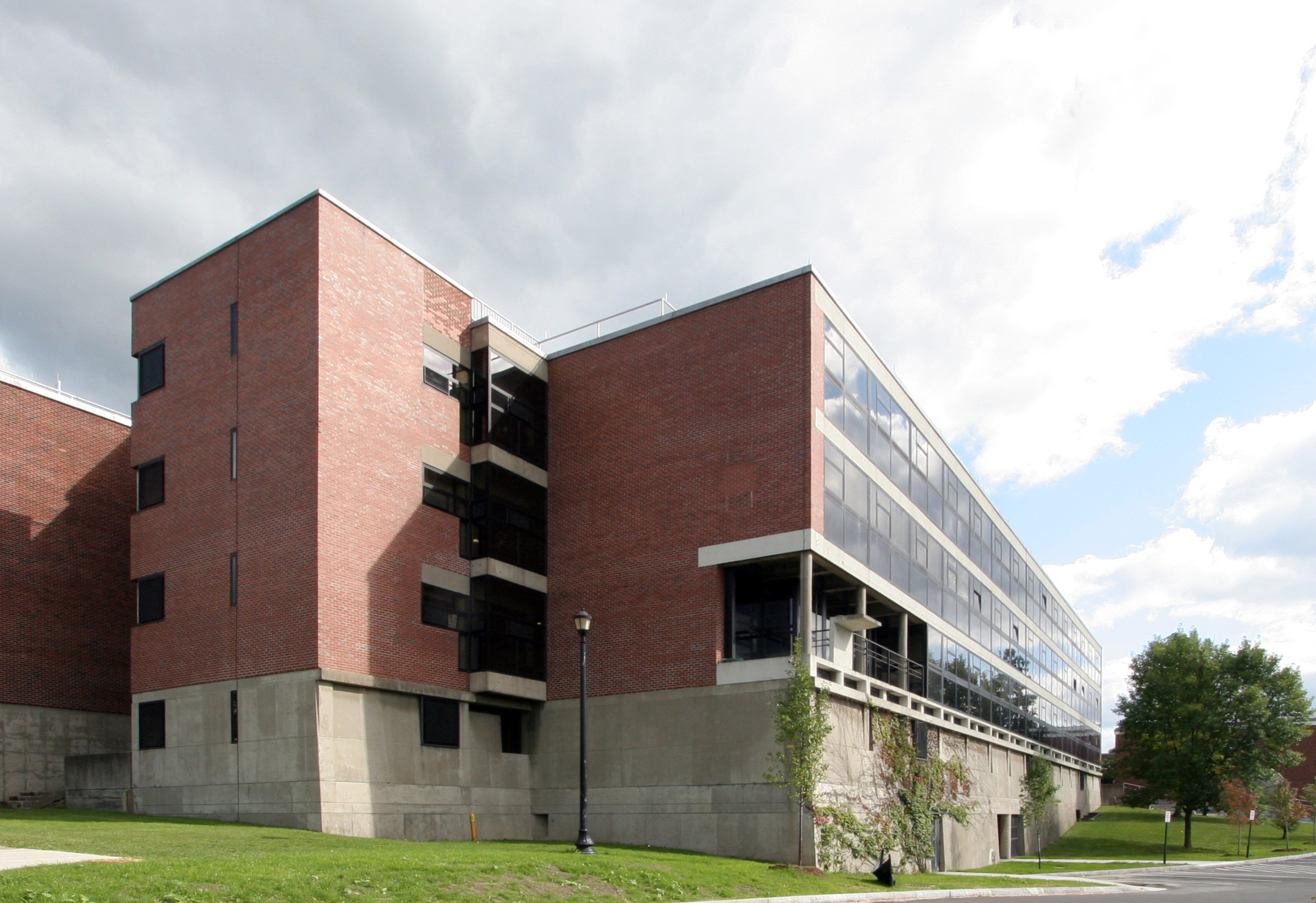 A teaching laboratory building on the edge of the campus of Cortland State University. The campus side is an almost solid brick wall, while the side facing the countryside is an all-glass curtain wall, a favorite theme that was to appear again in the Willard Administration Building. This is Seligmann's first institutional building.